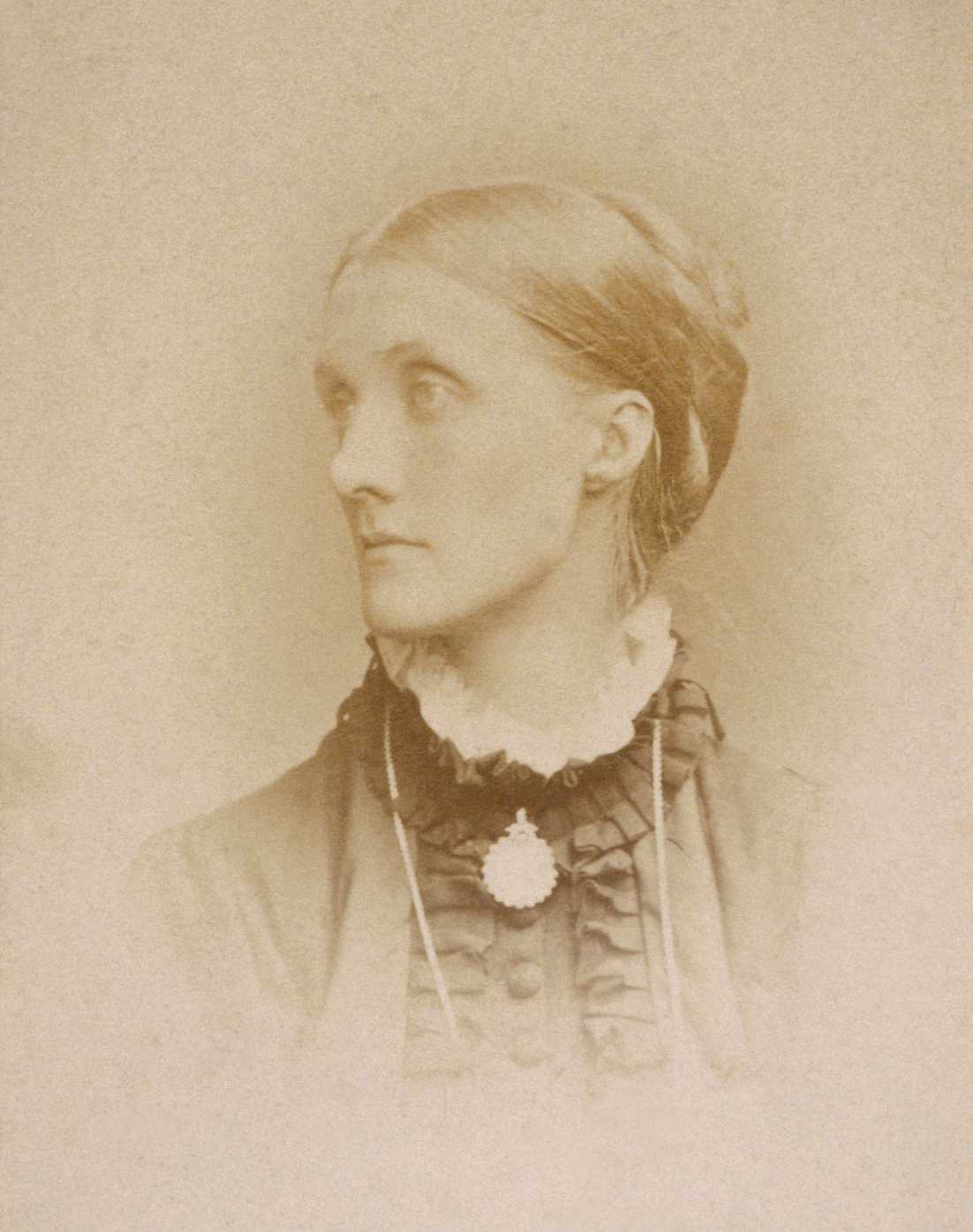 Photographic portrait of Julia Stephen in the 1880s